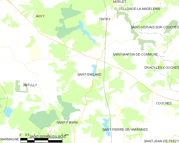 Map of French municipality